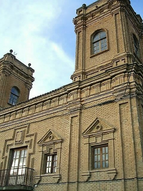 Palacio de los Gómara, en Valtierra (Navarra, España)